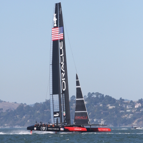 Oracle Racing chasing Team New Zealand on the first downwind leg of the in the second race in the 2013 America's Cup.